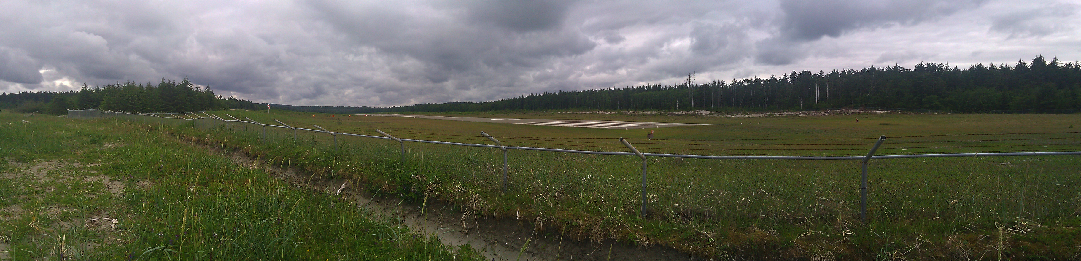 Picture of Masset Airport (CZMT) taken from the north side of the airport around 20:10 localtime. The beach is behind the camera.